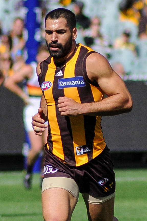 Paul Puopolo during the AFL round two match between Hawthorn and Adelaide on 1 April 2017 at the Melbourne Cricket Ground in Melbourne, Victoria.